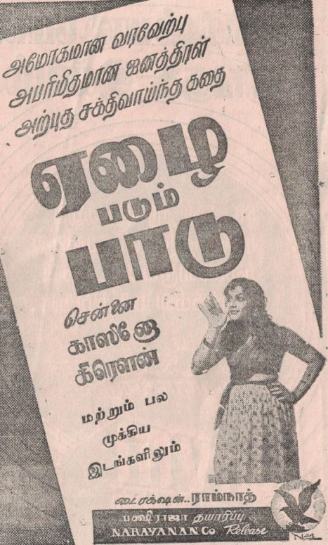 Poster for the 1950 South Indian Tamil film Ezhai Padum Padu